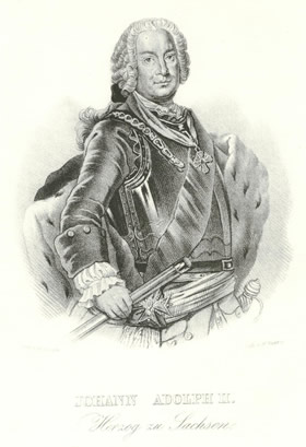 Johann Adolf II, Duke of Saxe-Weissenfels